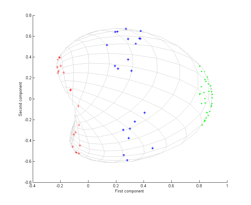 The first two principal components after PCA using a Gaussian kernel